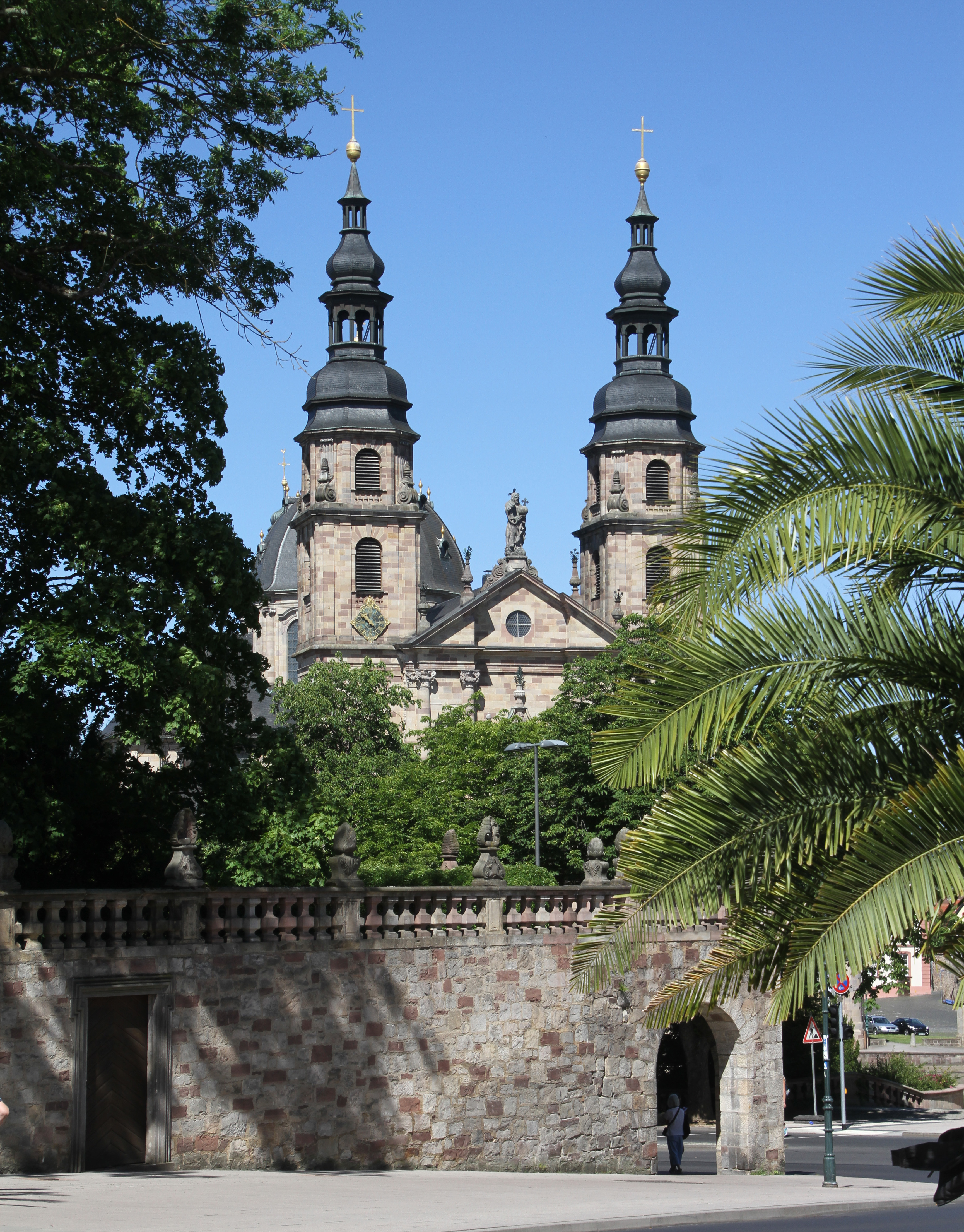 Fulda Cathedral